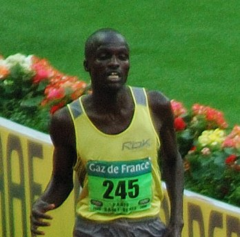 Edwin Soi at the 2006 Golden League Paris meeting